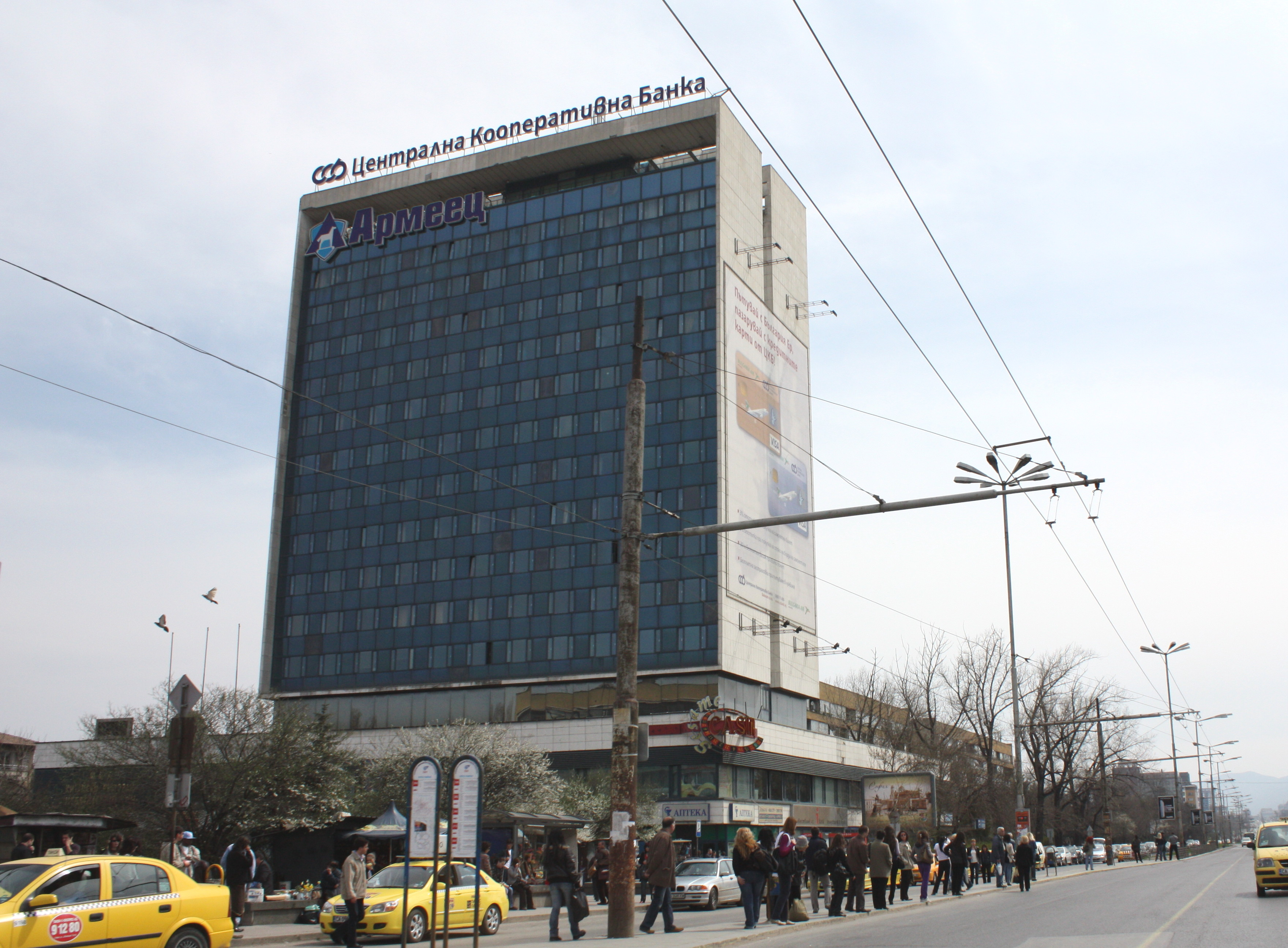 Streets in Sofia, Sofia, Bulgaria